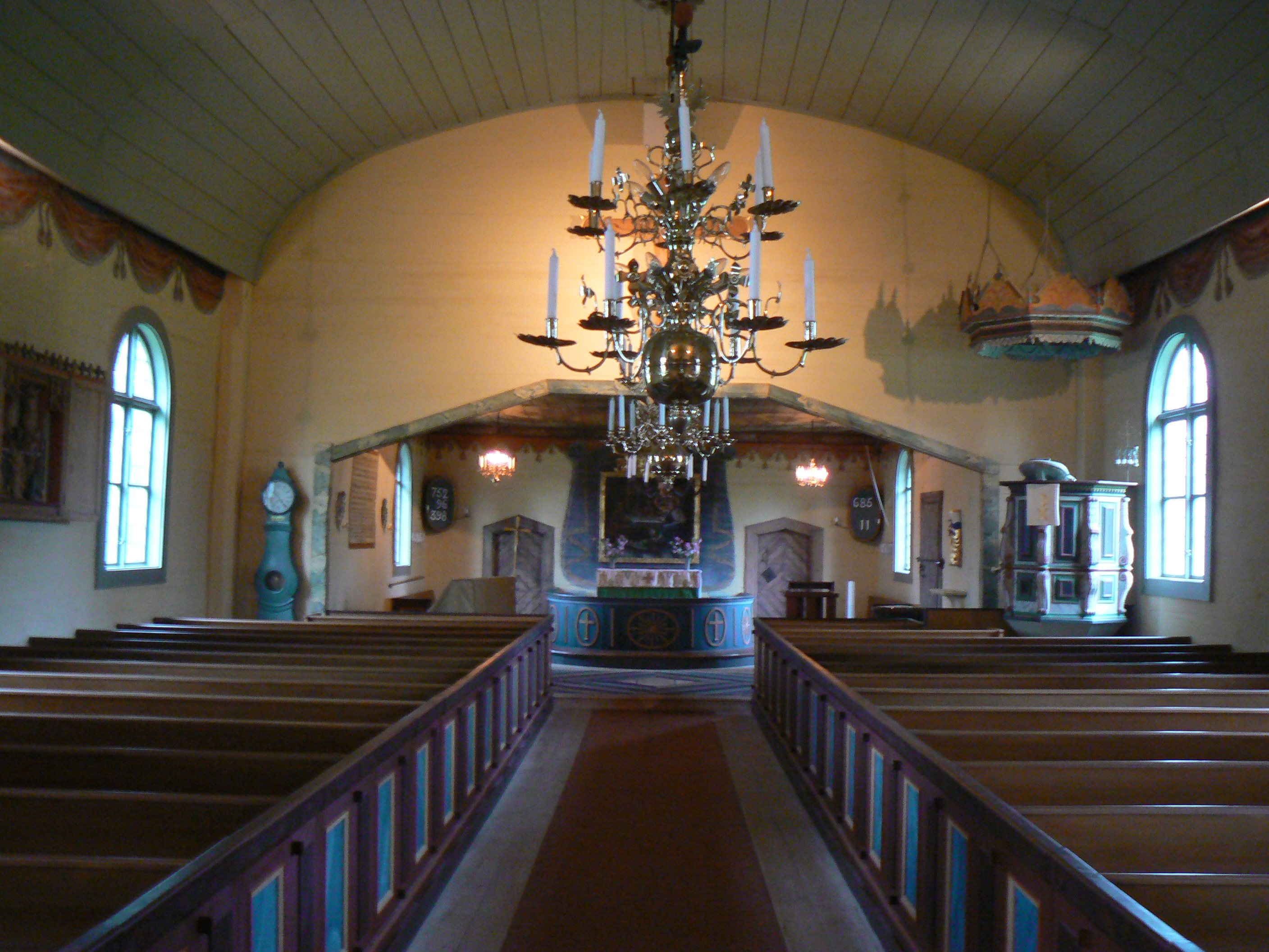 Interior of Ulrika Church, south of Linköping, Sweden